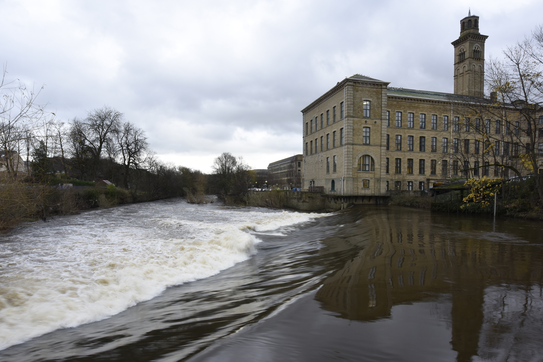 A view looking south over the weir on the River Aire in Saltaire. The mill is the New Mill, part of the Saltaire Mill Complex, but when Nicholson went in the water, the site was occupied by Dixon's Mill. The crossing stones were in the area near to the bush growing out of the river.